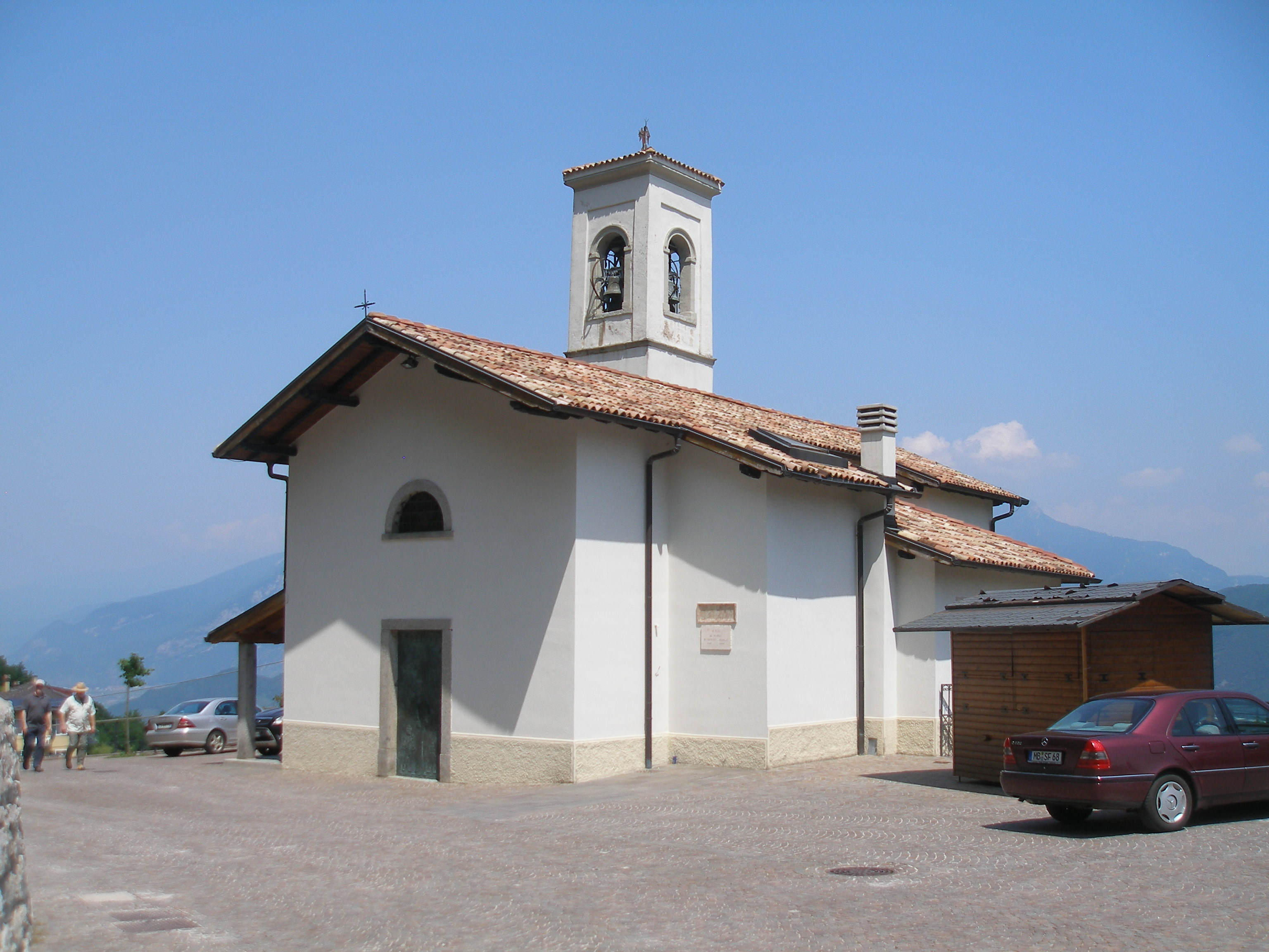 Pregasina - the Saint George church